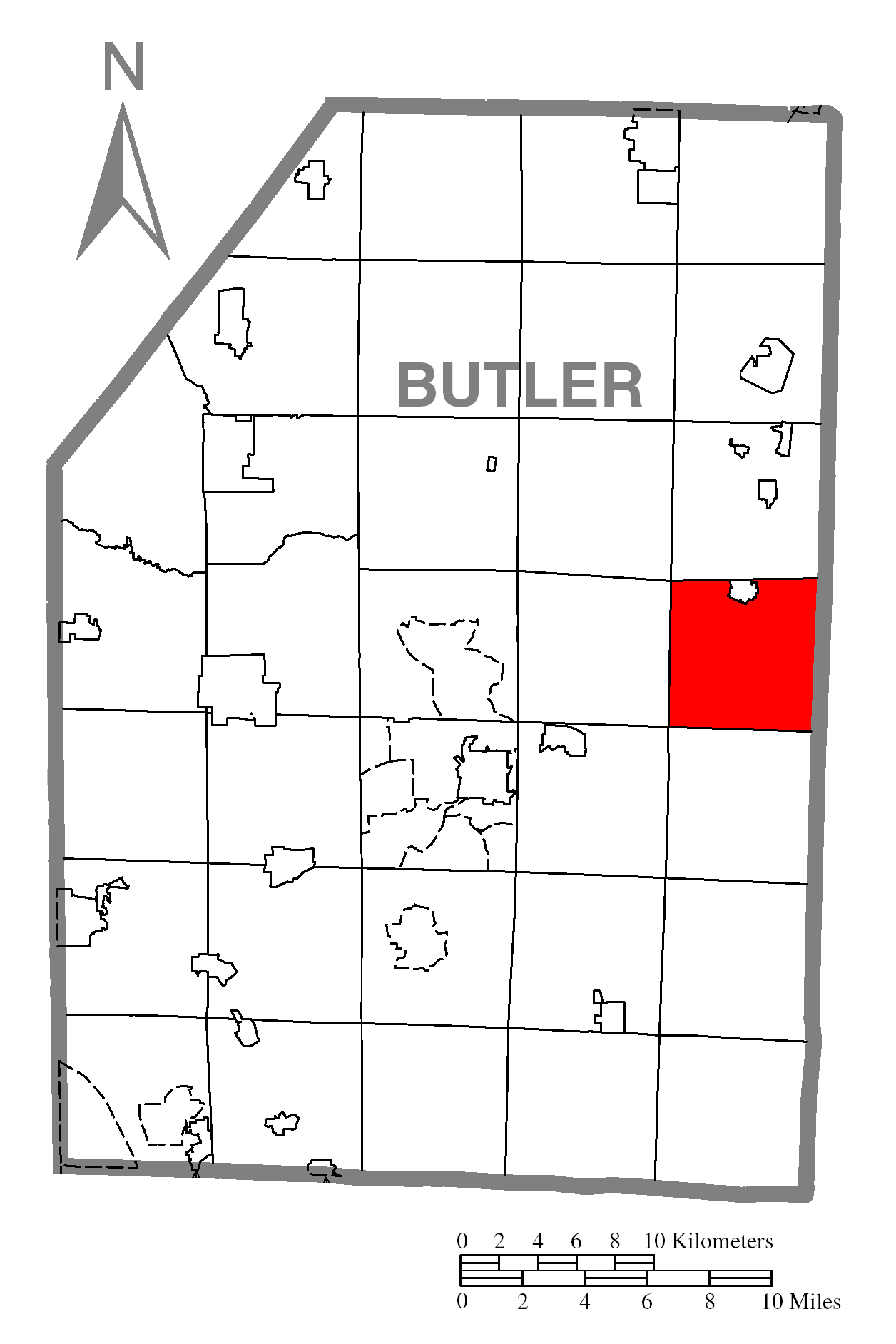 A map of Butler County showing Donegal Township, Pennsylvania (alternate) highlighted on the map.